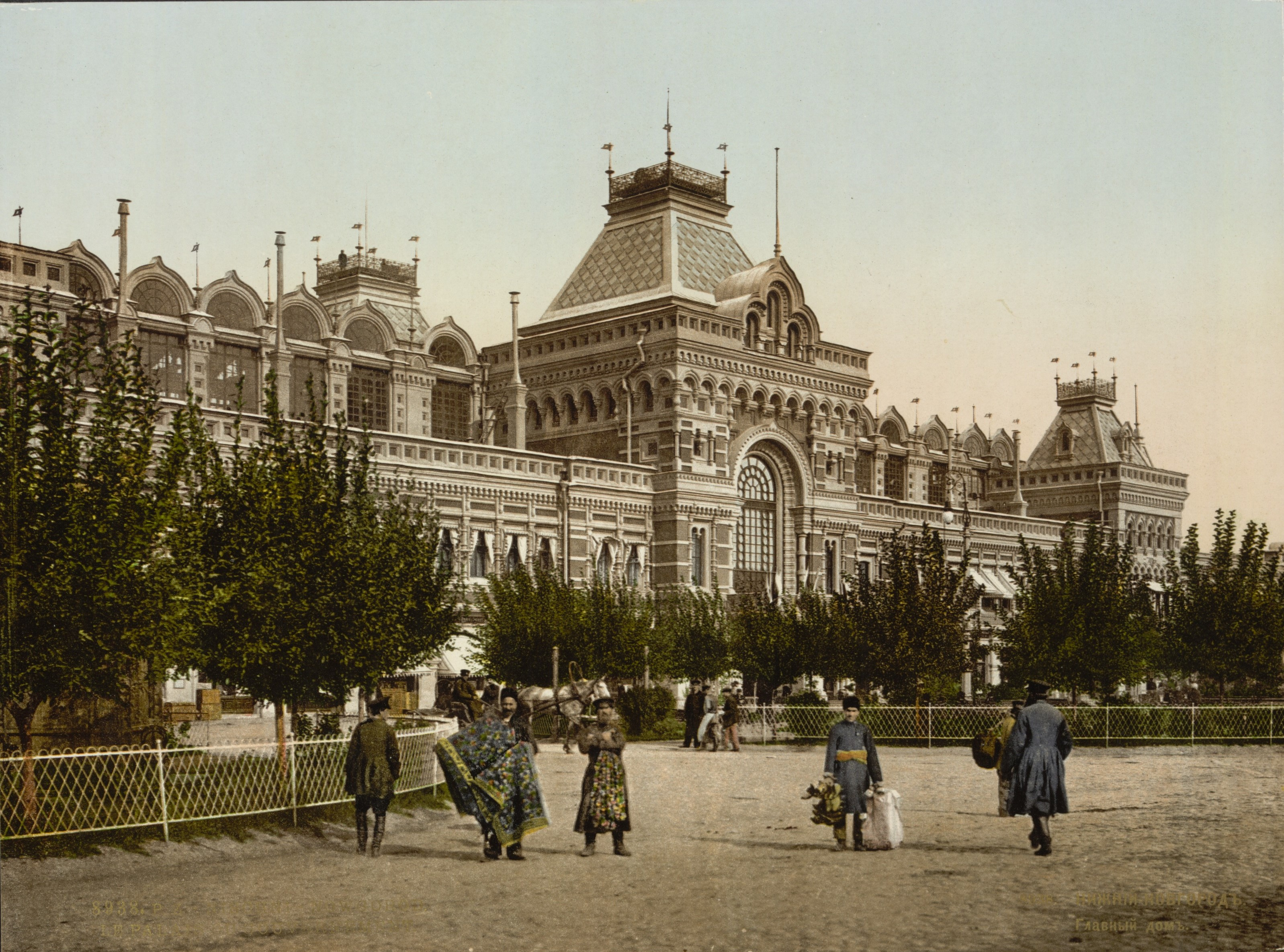 19th-century postcard of the Main Fair Building in Nizhny Novgorod.